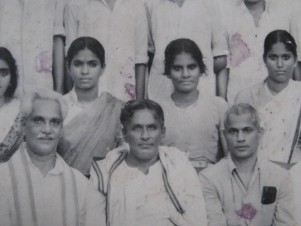 malayalam poet P.Kunhiraman Nair with his co working teachers in Koodali hai school